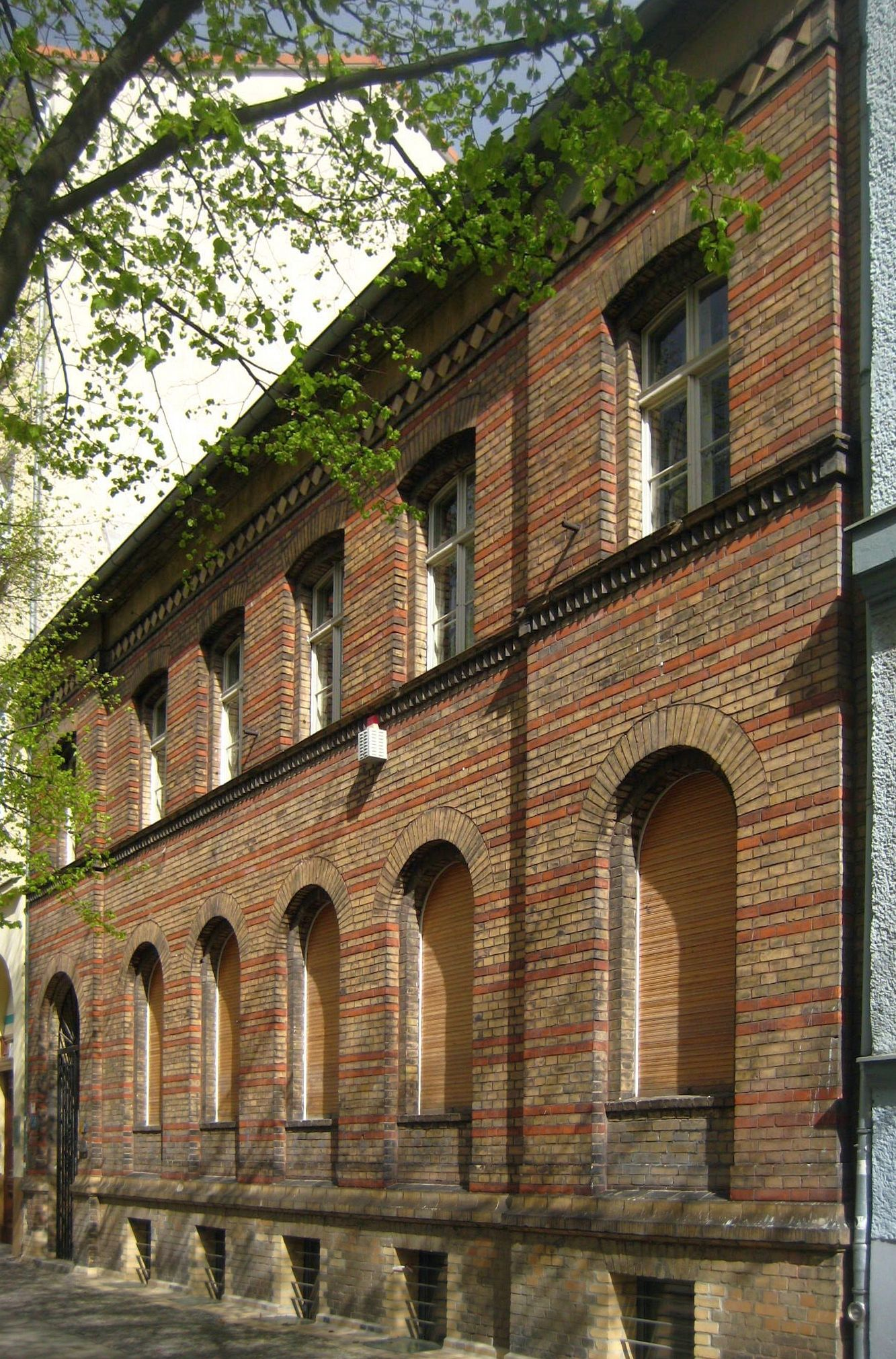 Former preacher home of Zion Church at Griebenowstraße No. 15 in Berlin-Mitte. The house was built in 1870; around 1905, a rear building was added. From 1986 onward, the building housed the "Umweltbibliothek" ("Environmental Library"), a meeting place of opposition forces in the GDR. The building has been designated as a historic landmark.